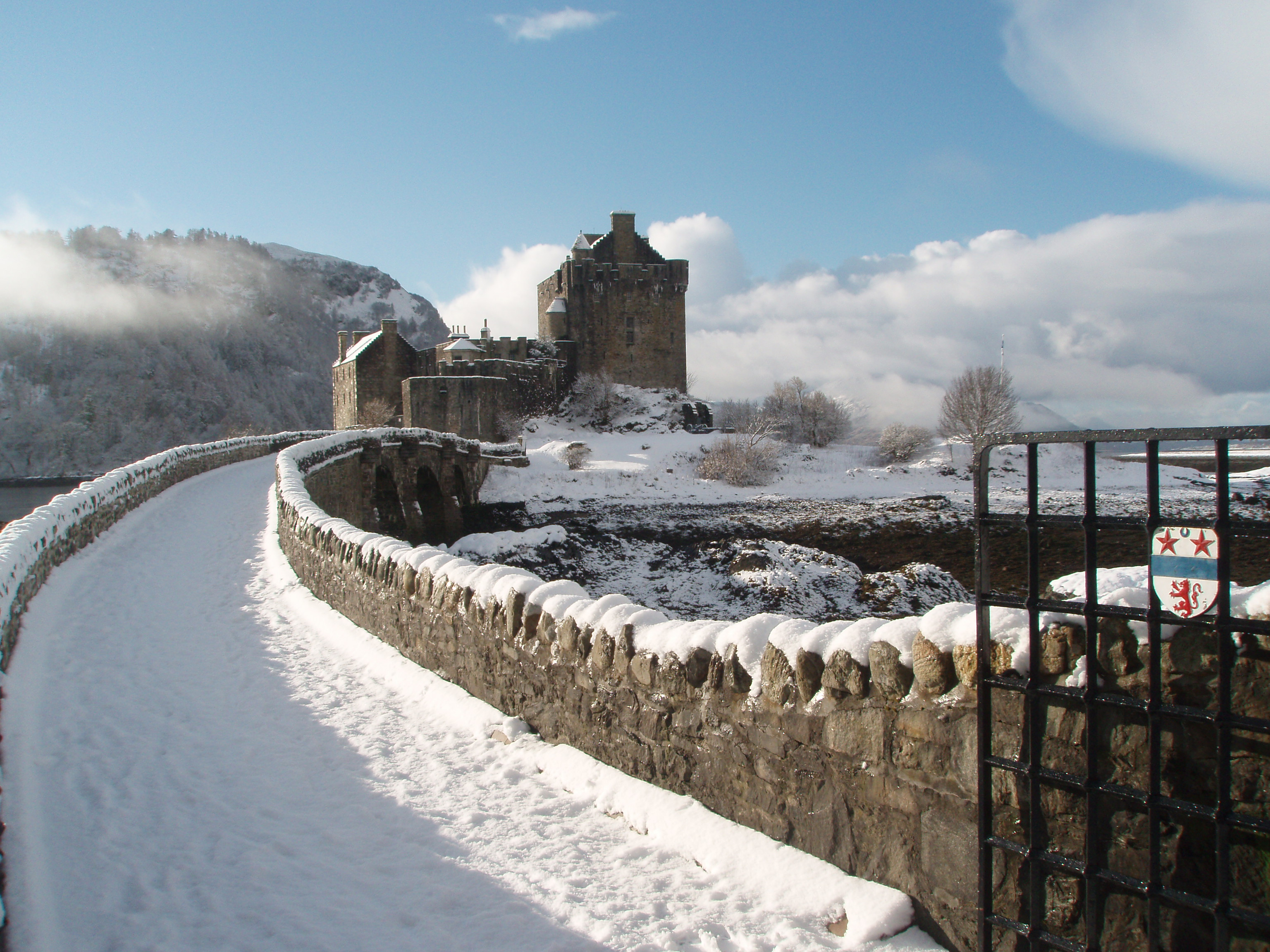 Eilean Donan castle covered in snow, seen from the start of the bridge.